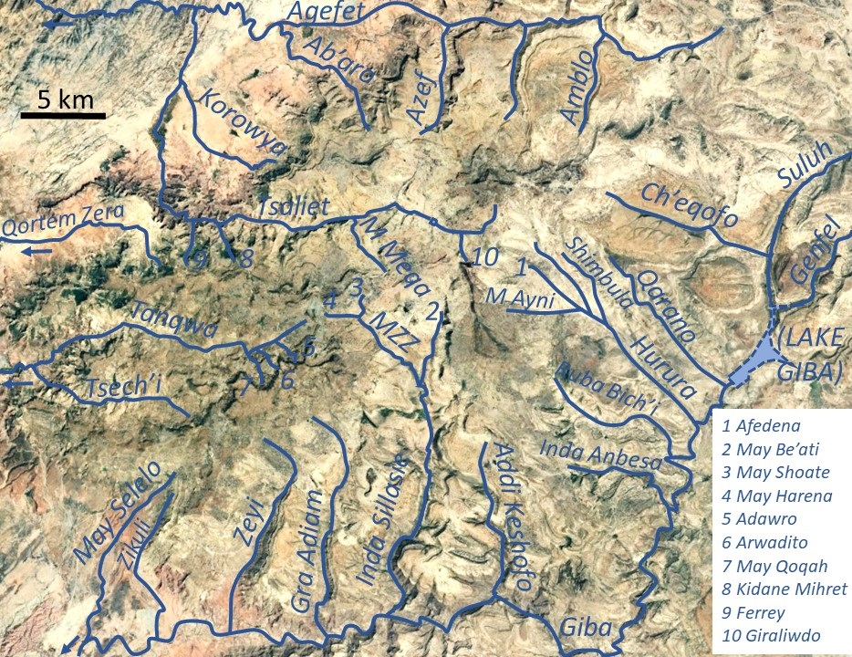 DT drainage